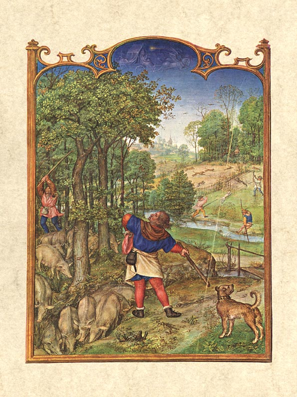 November, Brevarium Grimani, fol. 12v (Flemish)